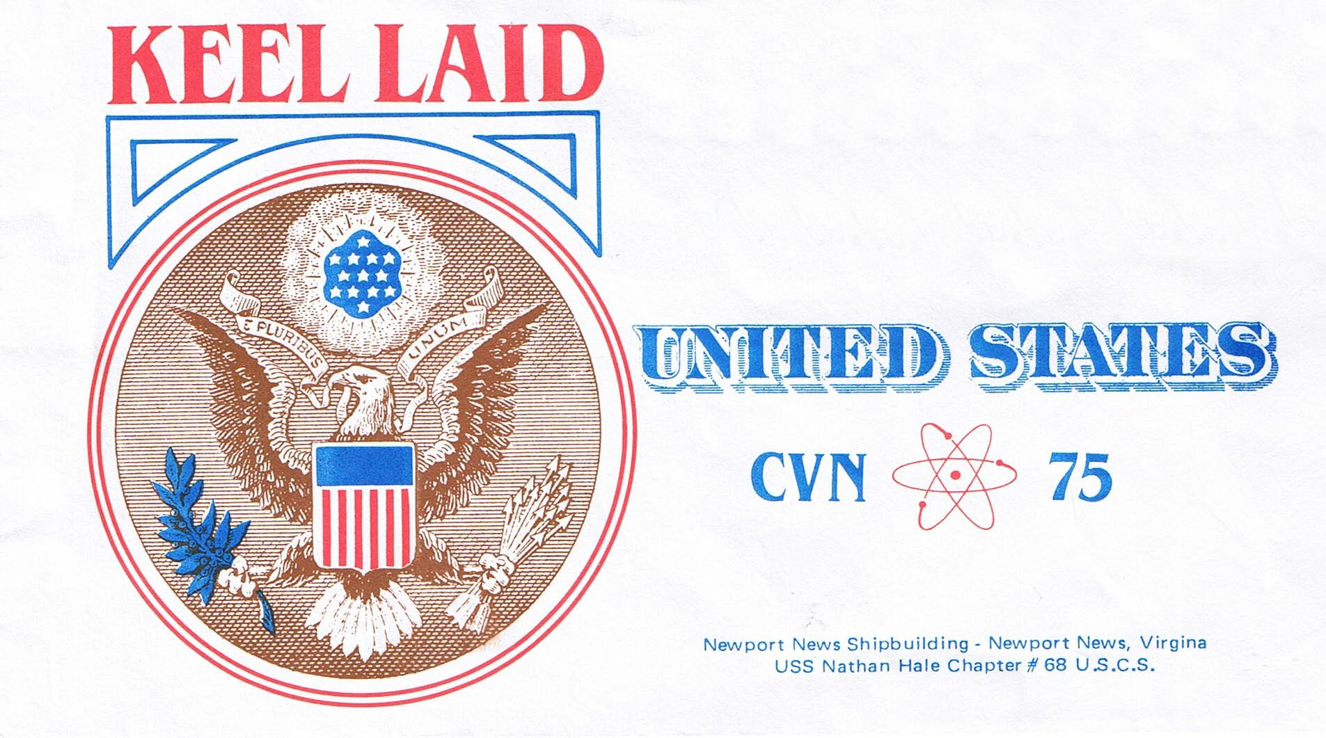 This is a Cover for the Keel Laying of the, then USS United States (CVN-75) as one can clearly see the keel was laid as USS United States, Not Harry S. Truman.